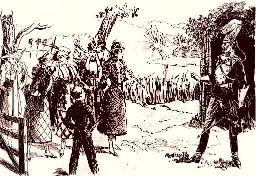 Drawing of a scene from Jane Annie On the Golf Course, Act II, 1893